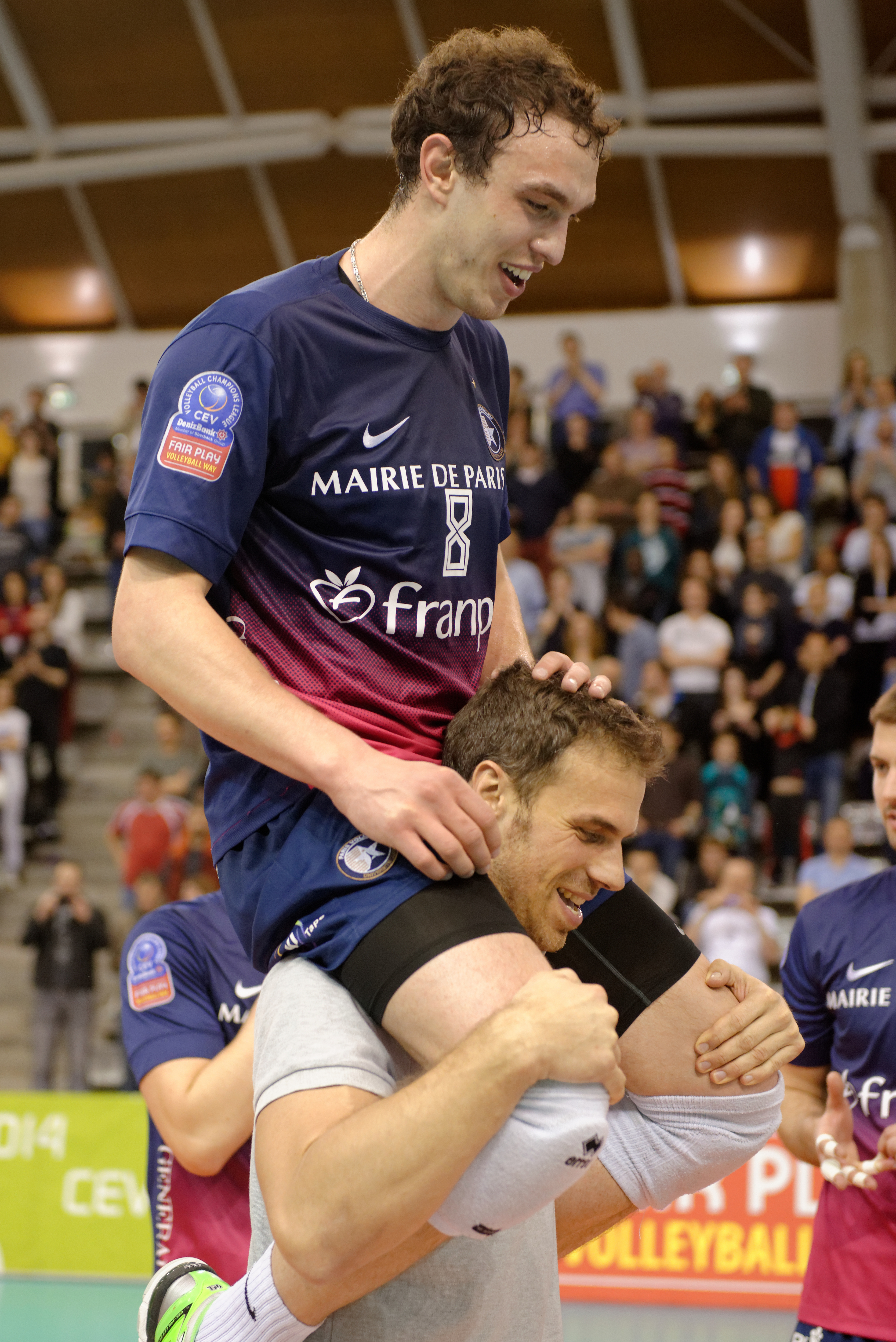 Paris Volley coach Dorian Rougeyron carries man of the match Marko Ivović on his shoulders after their win over Guberniya Nizhny Novgorod in the final of the 2014 CEV Cup in Paris on 29 March 2014.